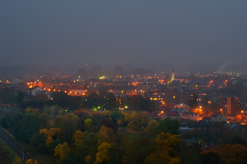 Grajewo Panorama made ​​from elevator